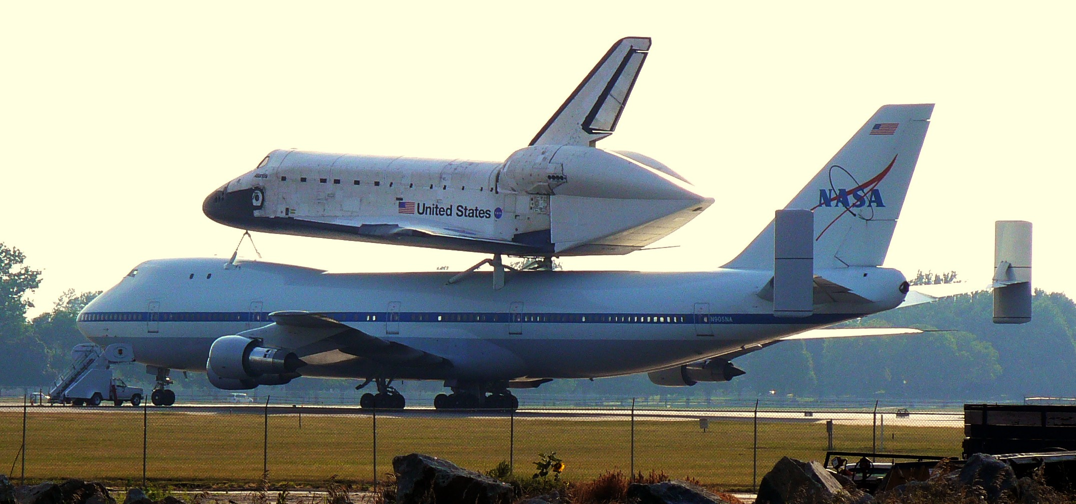 Space Shuttle Atlantis at Offutt Air Force Base, Nebraska